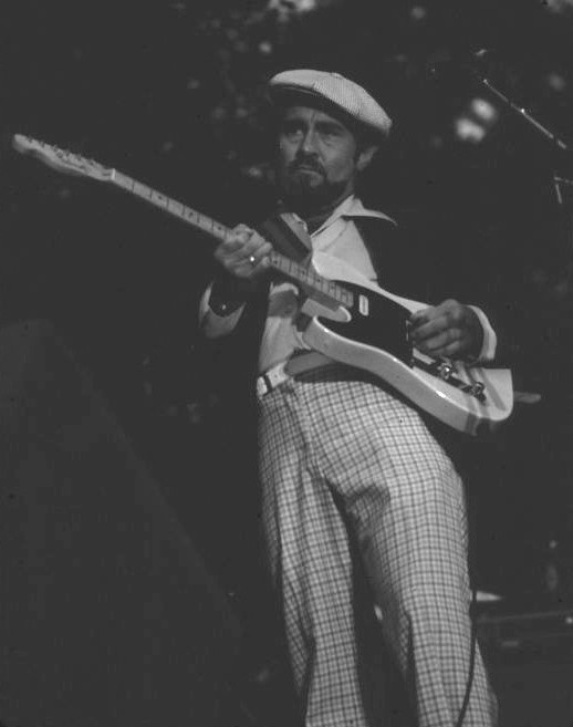 Roy Buchanan performing at the Pinecrest Country Club in Shelton, CT.